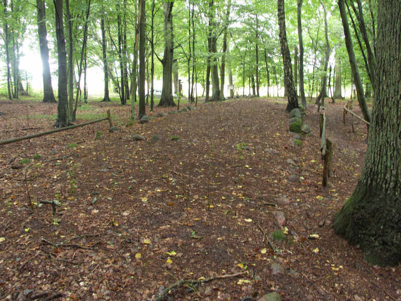 Borkowo - megalith grave